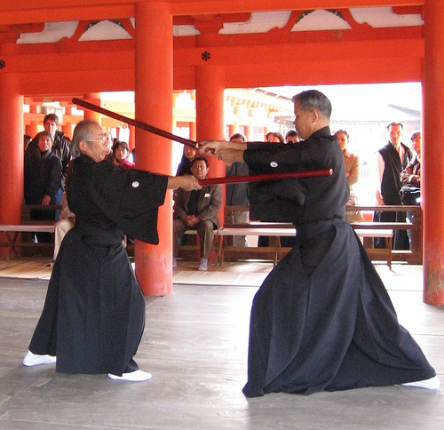 Kenjutsu Koryu masters at Itsukushima Jinja, japan, November 2005